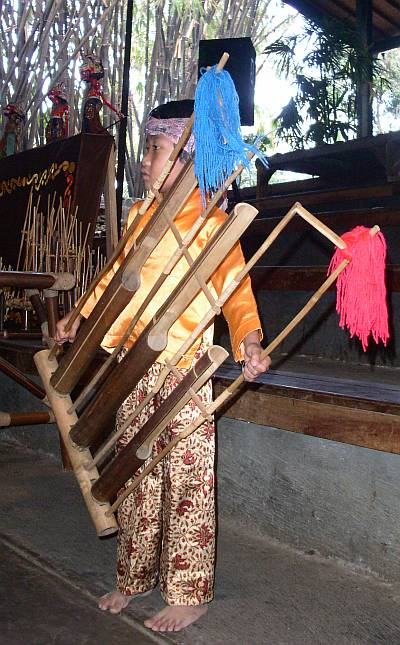 Mang Udjo, Bandung, Indonesia